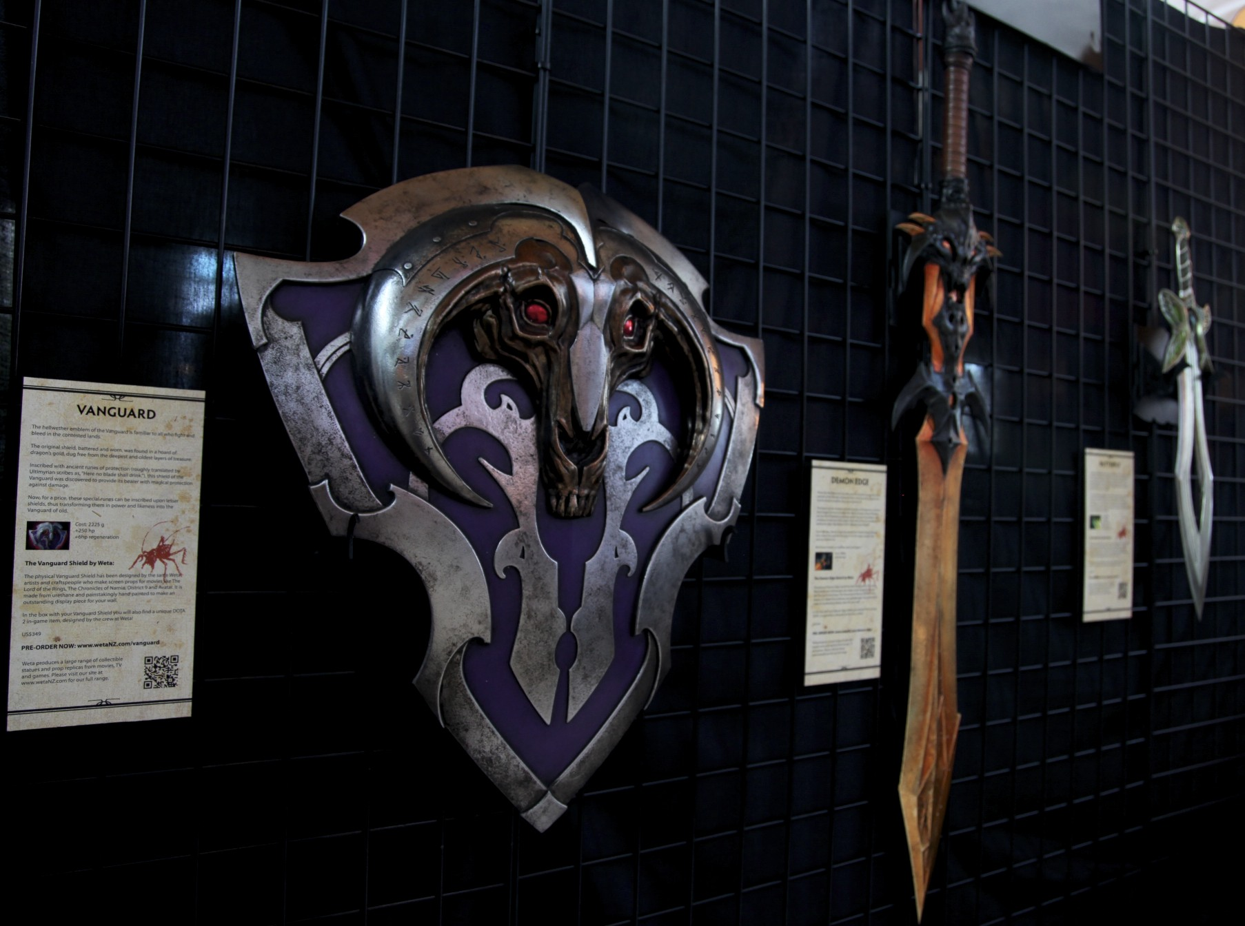 Photo of physical props from the video game, Dota 2, with the "Vanguard" in front, being sold at the The International 2012 tournament